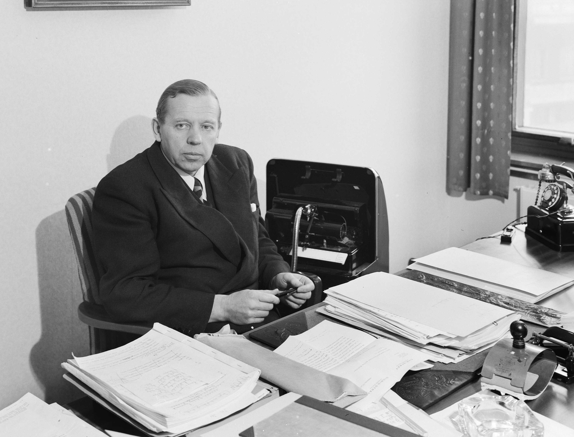 Erling Wikborg (5 November 1894 – 6 April 1992) was a Norwegian politician for the Christian Democratic Party.